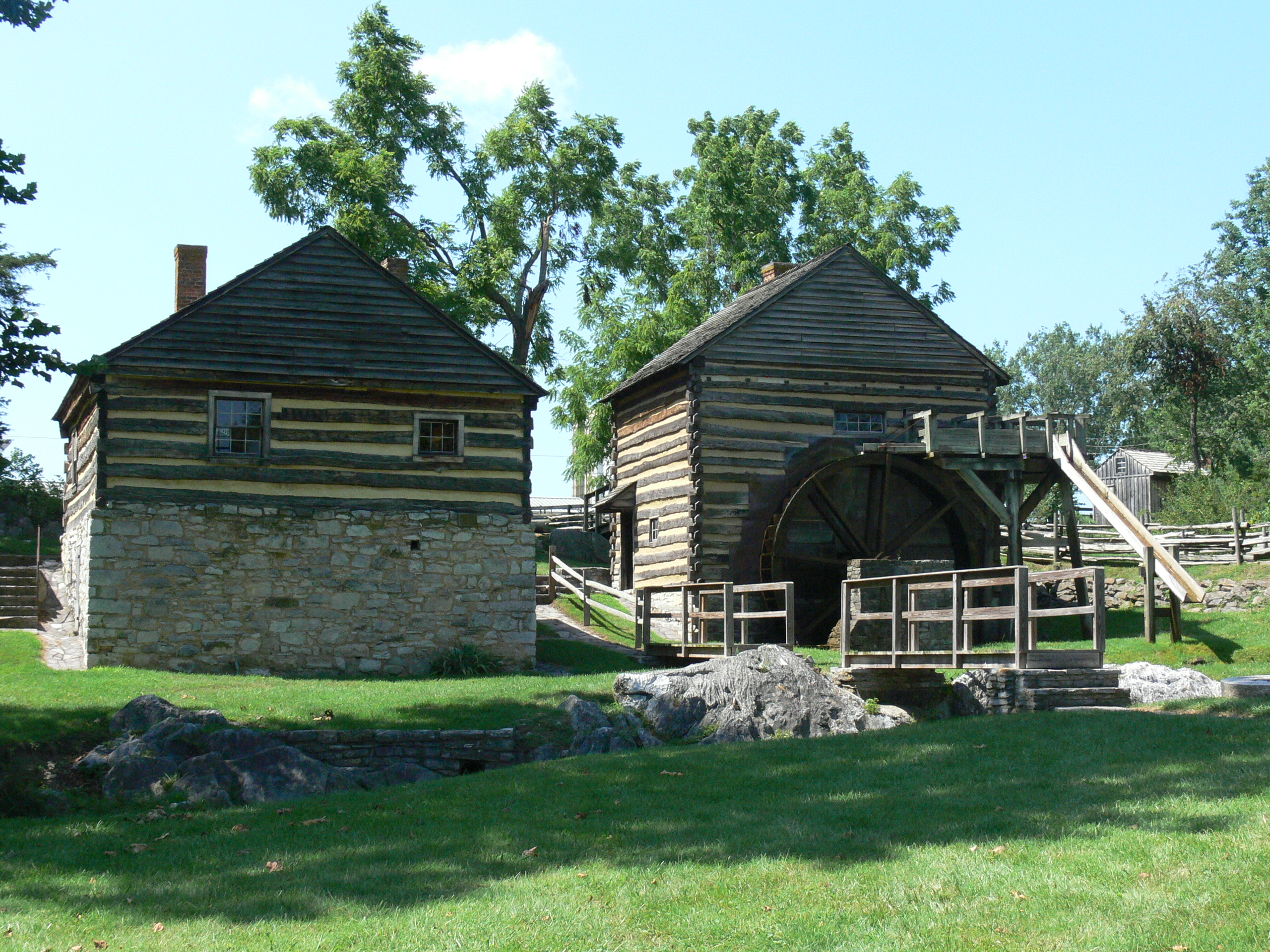 Photograph of the Cyrus McCormick Farm in Rockbridge County, Virginia, near Steele's Tavern. At left is the blacksmith's shop, at right, the grist mill. The blacksmith shop was used in building McCormick's mechanical reaper. Object location37° 56′ 02″ N, 79° 13′ 04″ W